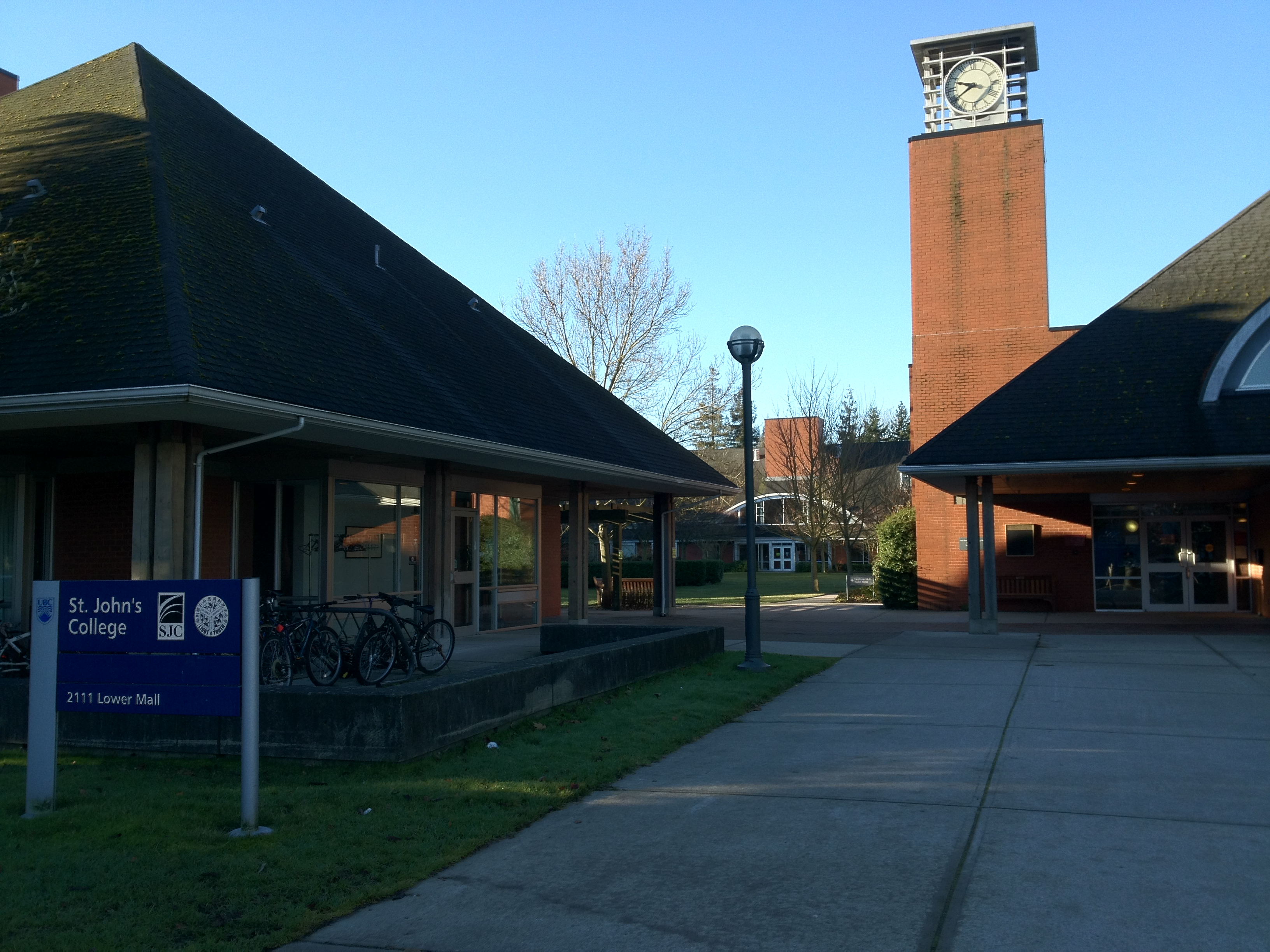 A photograph of the entrance to the residential St. John's College on the campus of the University of British Columbia (UBC) in Vancouver, British Columbia, Canada.